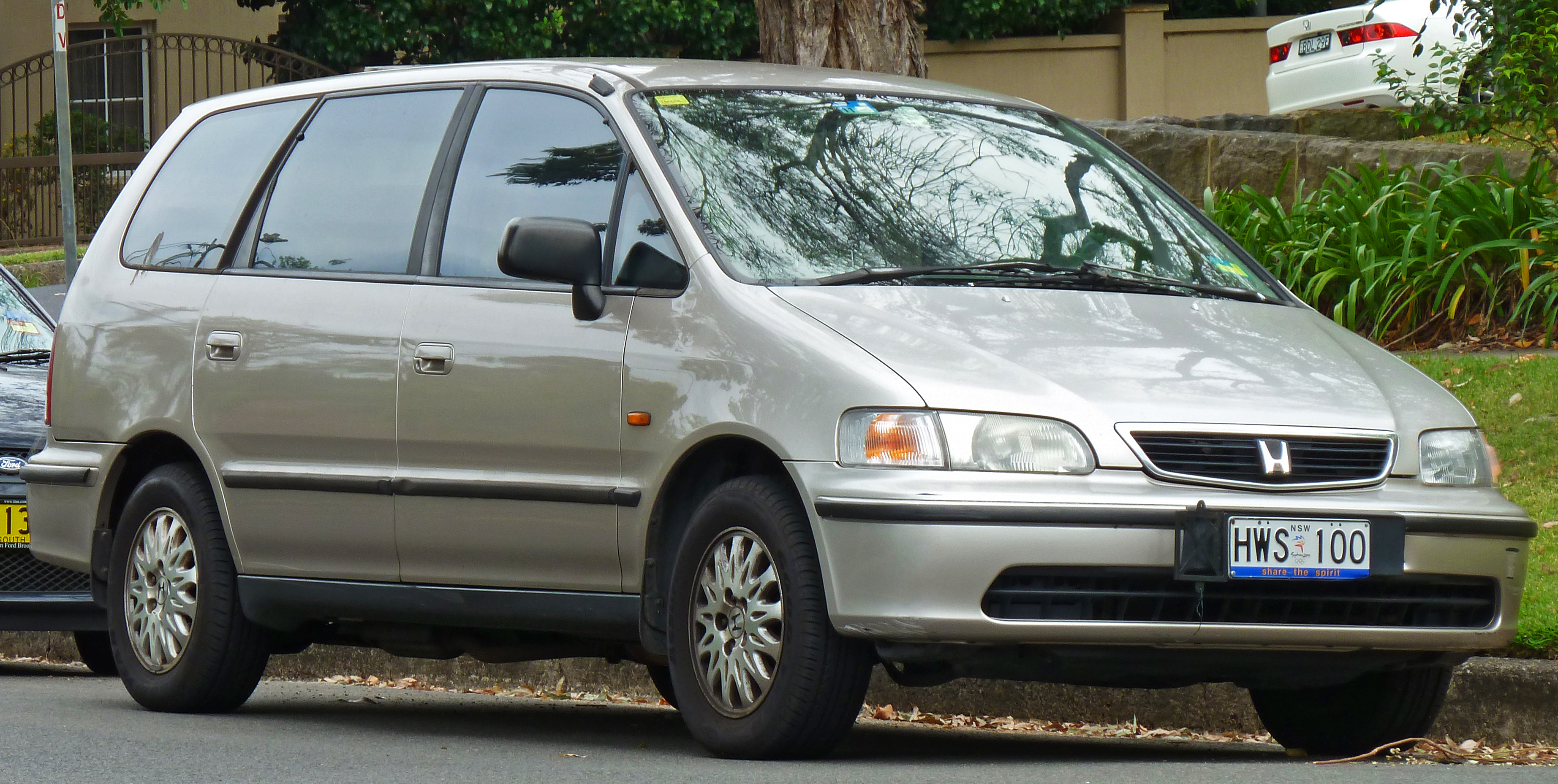 1998–2000 Honda Odyssey van. Photographed in Roseville, New South Wales, Australia.